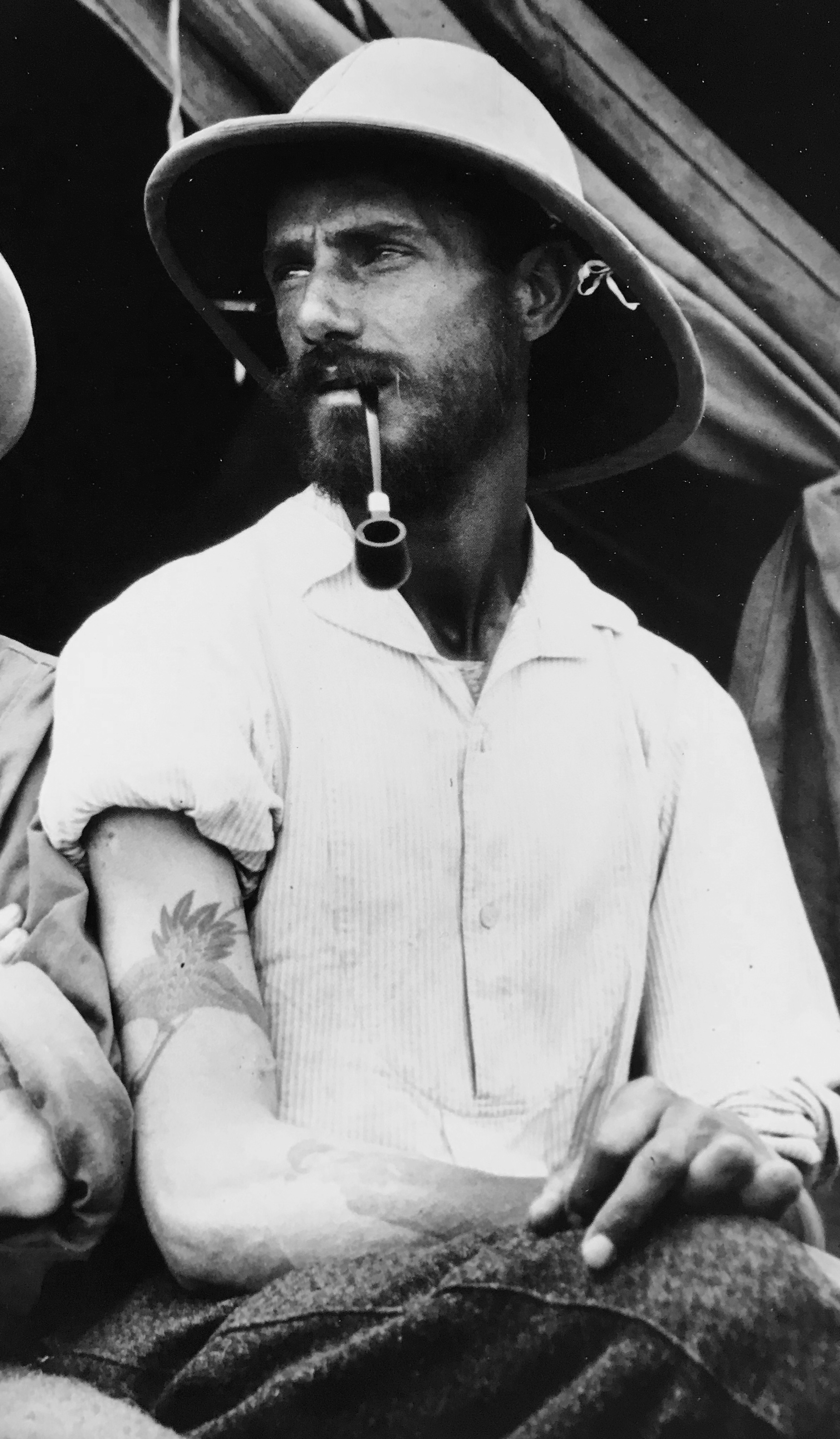 Ricardo de la Huerta y Avial, iure uxoris 14th Duke of Mandas y Villanueva, pictured wearing a pith helmet during a safari in British West Africa that lasted for 6 months between November 1907 and May 1908. He was accompanied by the Marquess of Scala and the Duke of Peñaranda, amongst other Spanish peers.